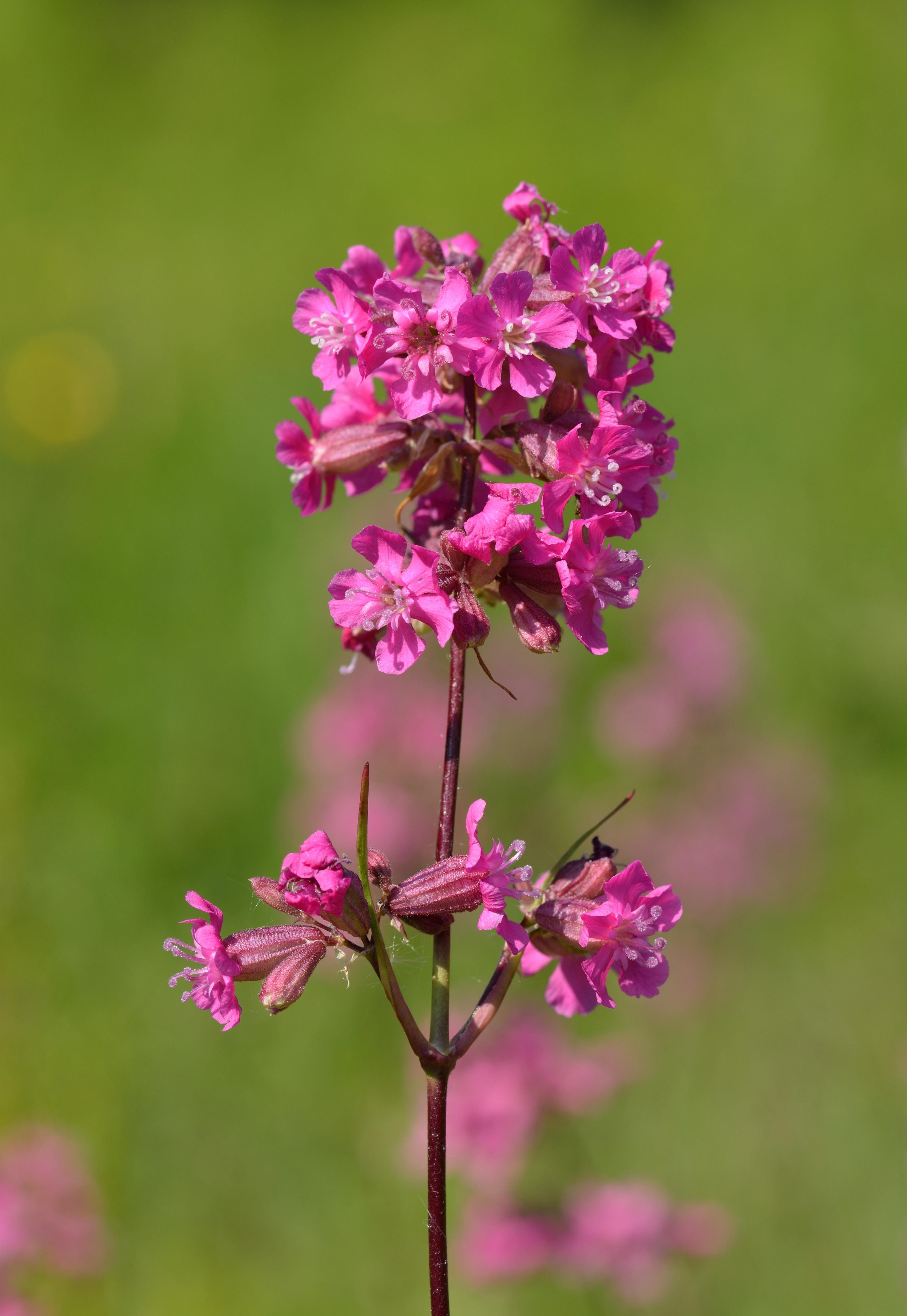 Lychnis viscaria, natural habitat in northwestern part of Keila (Estonia)